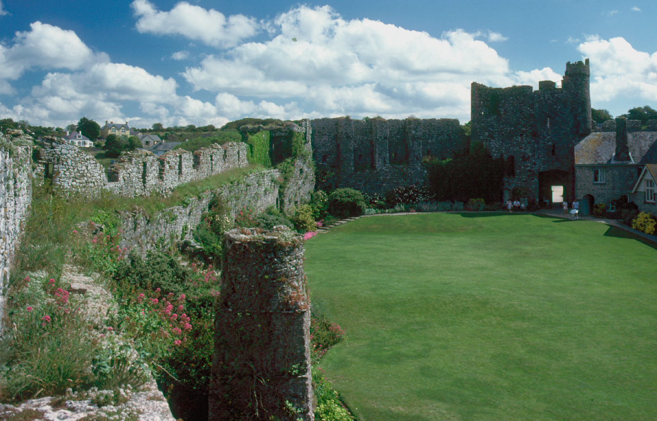 Inner ward of Manorbier Castle, located near the village of Tenby in South Wales/GB